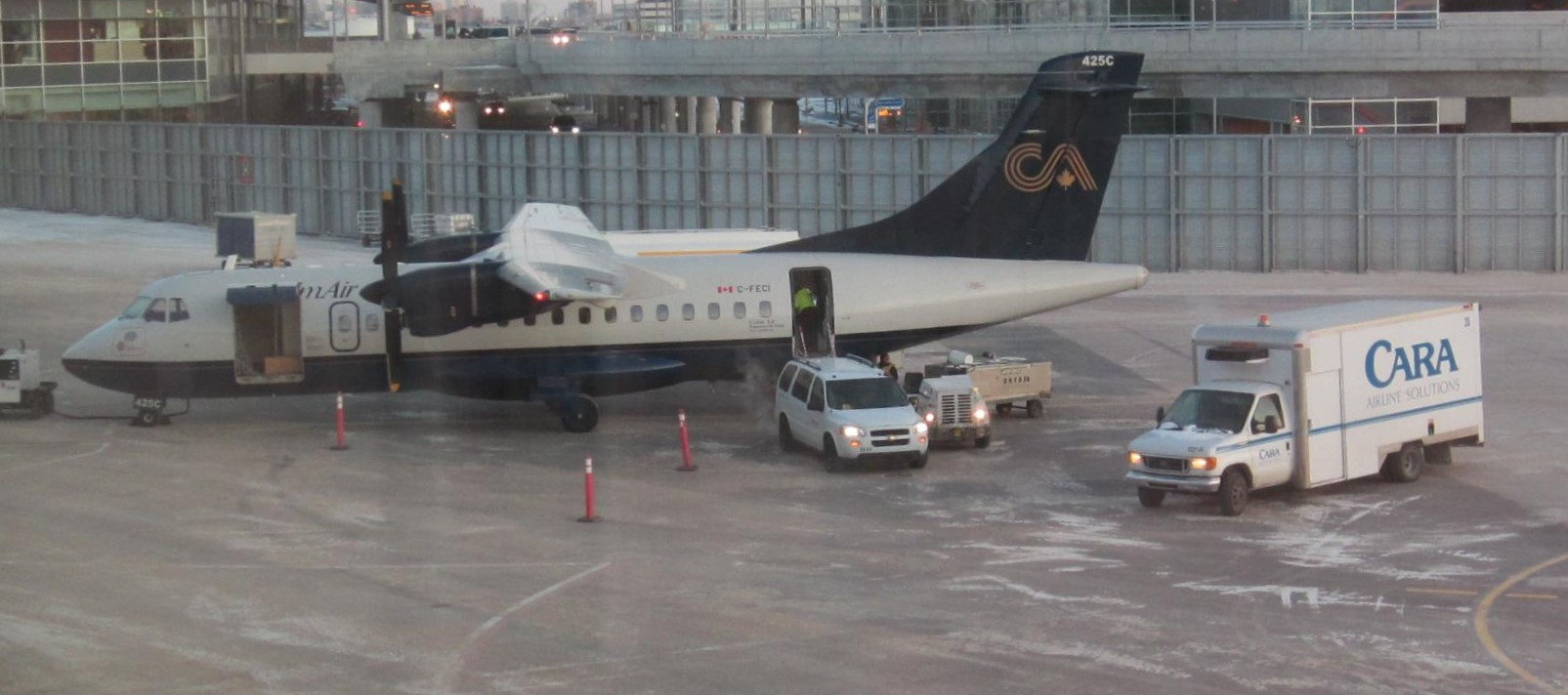 Calm Air C-FECI on the apron at Winnipeg James Armstrong Richardson International Airport, January 2012. The aircraft is an ATR 42-320. Passengers enter through the rear door, front door is for cargo.